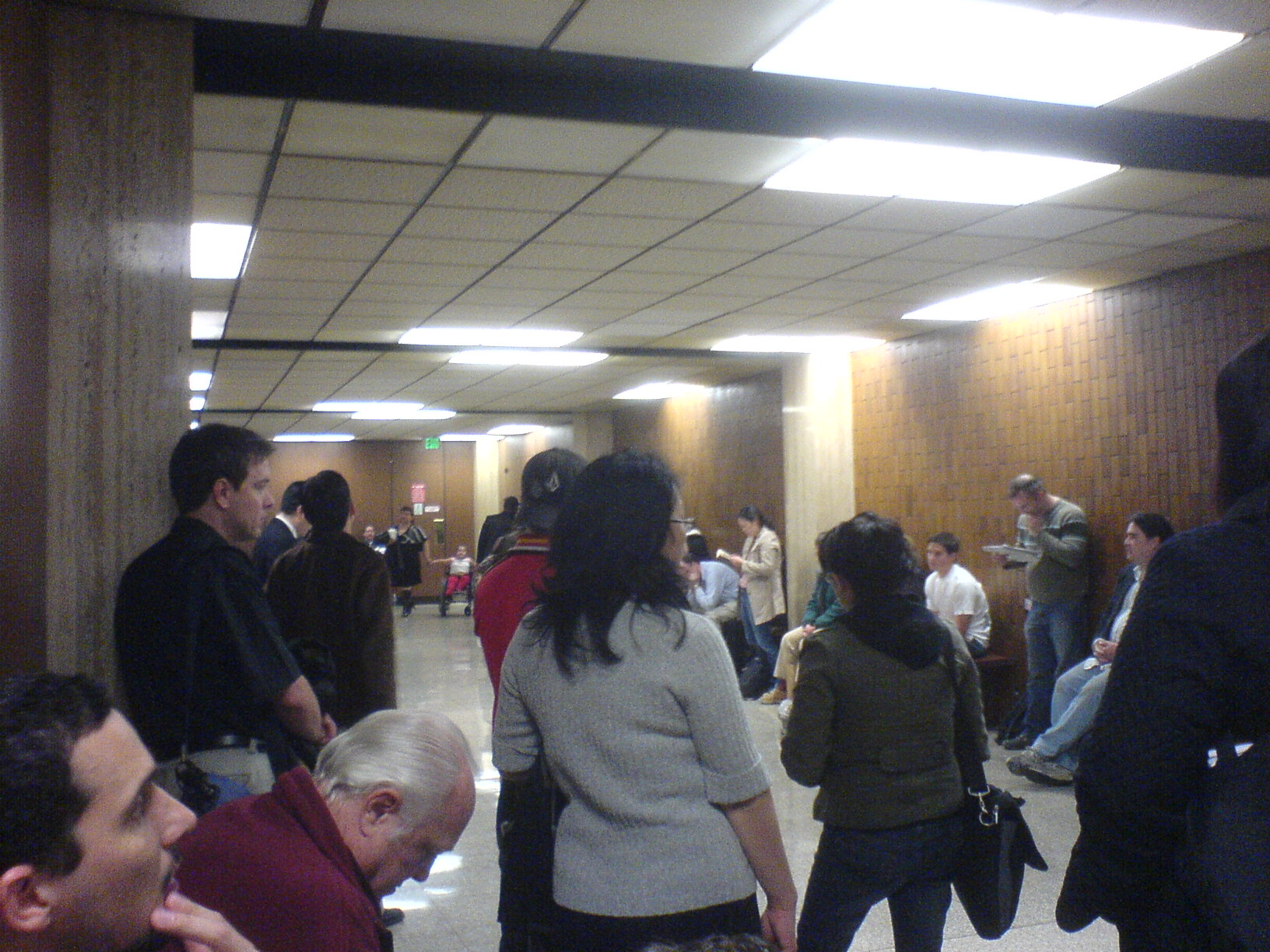 At this point during Jury Duty, about 50 randomly selected potential jurors (including myself) were waiting around for Jury Selection to begin.